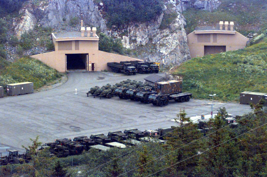 An overall shot of the entrances to the Bjugn Cave Facility in Norway. This picture shows some of the equipment already pulled from the cave parked on the lot that will be taken to Estonia for Baltic Challenge '97, a Partnership for Peace exercise. The US Marine Corps have equipment stored in Norway as part of the Norway Air-Landed Marine Expeditionary Brigade (NALMEB) Prepositioning Program. The NALMEB program contains equipment and supplies to support a 13,000 person Marine Air Ground Task Force (MAGTF) for 30 days. The Government of Norway is the on site "contractor" that provides storage, maintenance facilities, services, and security. This gear is stored in a series of 6 caves located in the Trondheim region of central Norway.